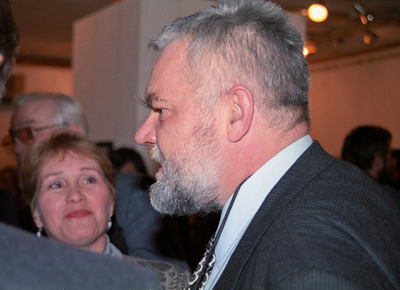 70 years ago the «Soviet Photo» magazine published its first issue. On the anniversary of this magazine its current and former employees gathered in Photocenter (Moscow, Gogol boulevard, 8). From 1992 to 1997, this magazine was called «Photography». The picture shows Antanas Sutkus — Lithuanian photographer who often used photo paper «Slavich».